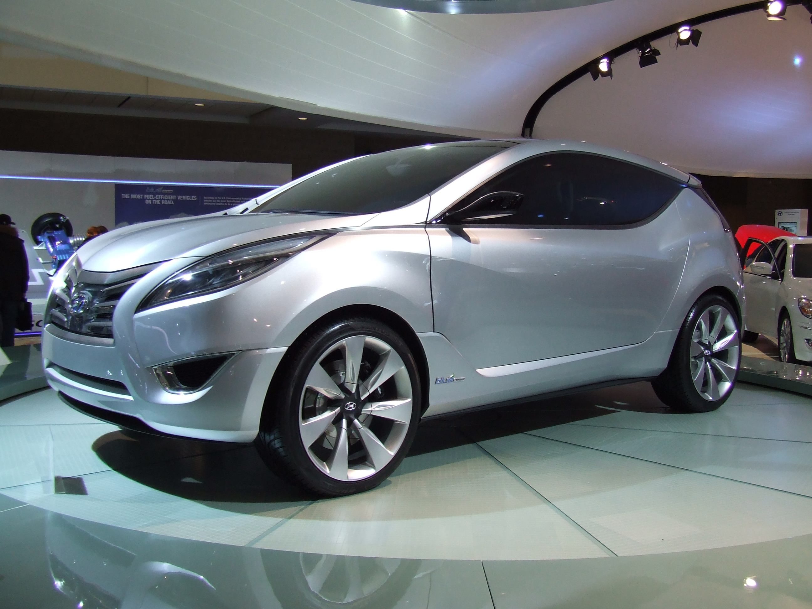 Hyundai Nuvis at the 2010 Canadian International AutoShow.